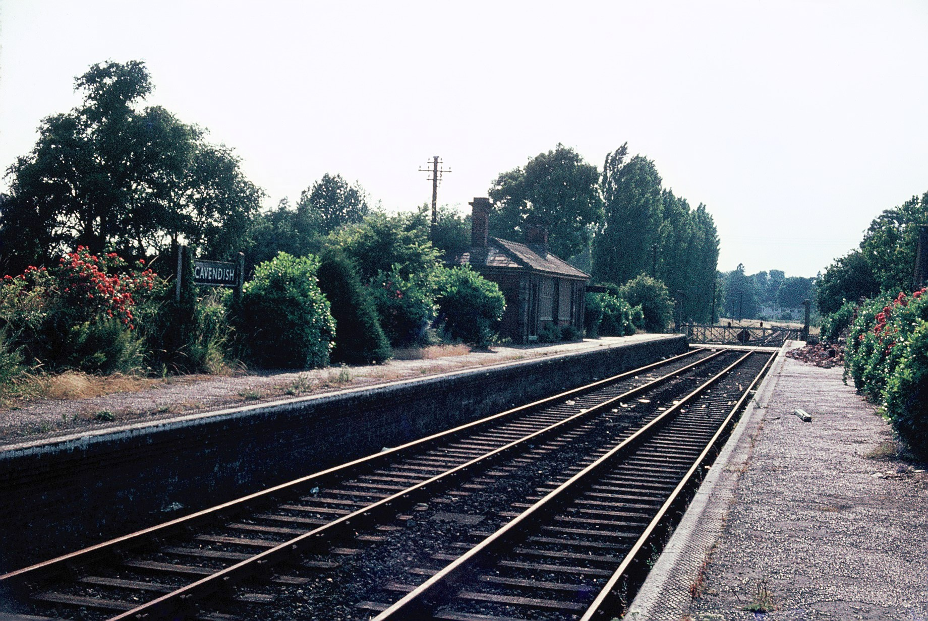 Looking west at Cavendish railway station.